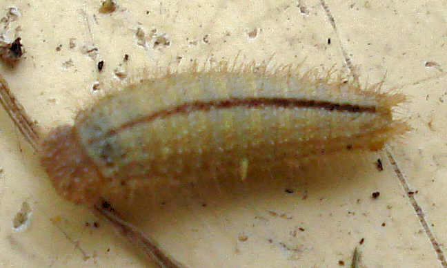 B.Park 290308 036 Larvae of the Ringlet Butterfly, Aphantopus hyperantus